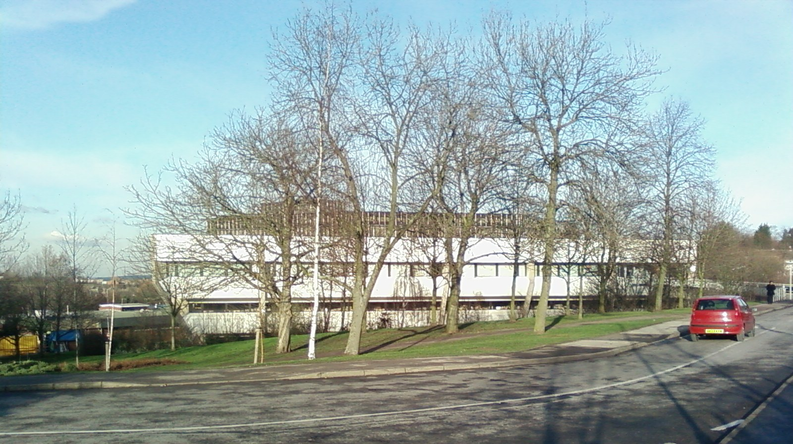 Pilkington Library, Loughborough University, England